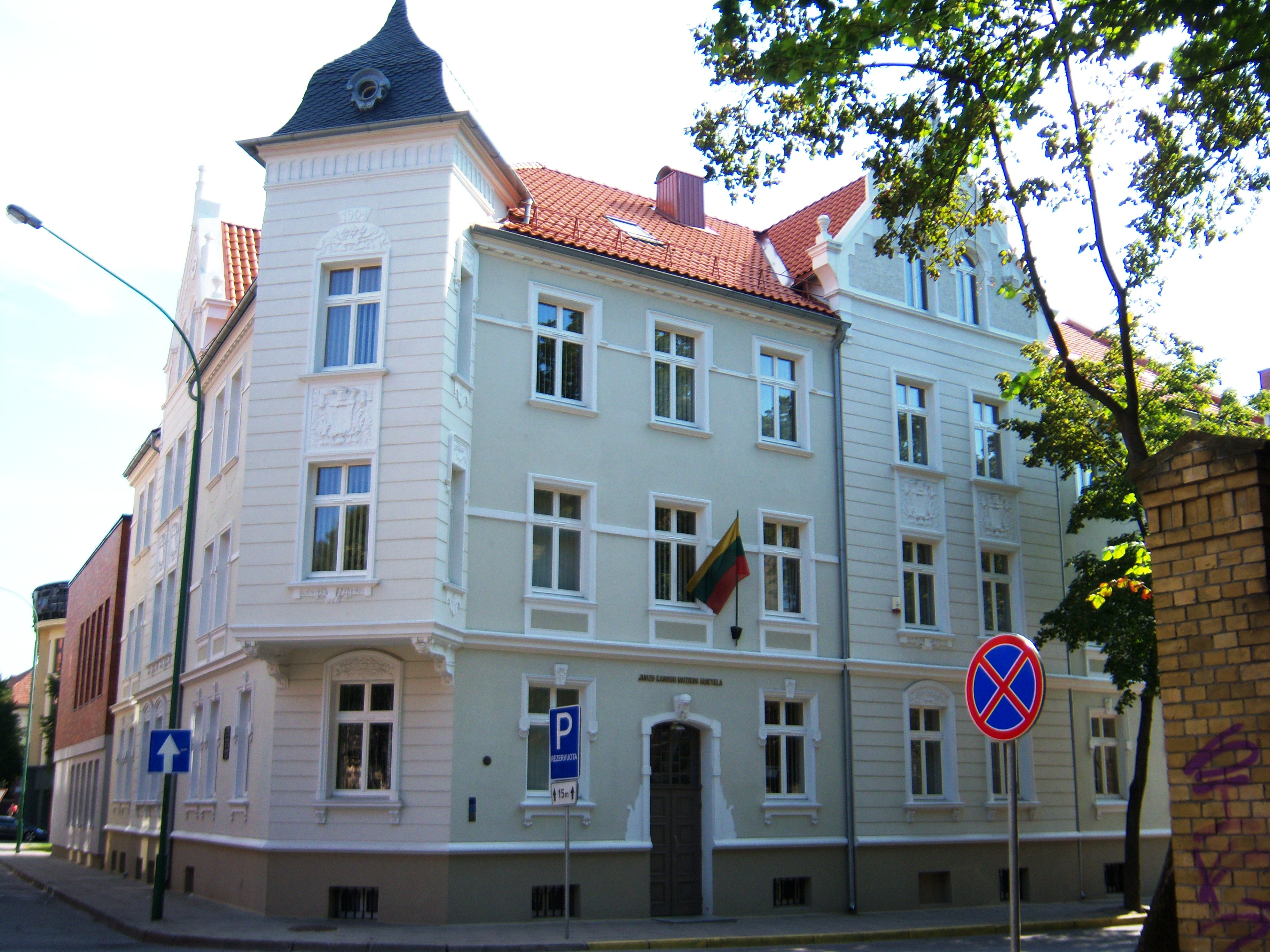 Juozas Karosas Music School, Lithuania